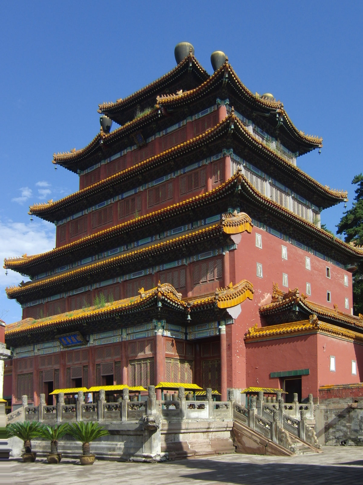 Puning Temple, The Hall of Mahayana, southern side and eastern side